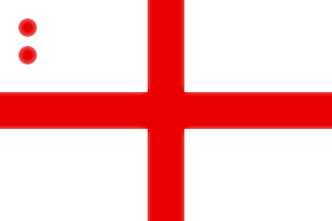 These are my own designs using MS Paint 2015 based upon the descriptions given in the book British flags, their early history, and their development at sea; with an account of the origin of the flag as a national device by Perrin, W. G. (William Gordon), 1874-1931 published in 1922, Chapter IV Flags of Command pp. 73-109. It is the command flag Rear Admiral of the White squadron flown at the top of the masthead in use from 1805 to 1864. In use on board ships in the Kingdom of Great Britain then later the United Kingdom.